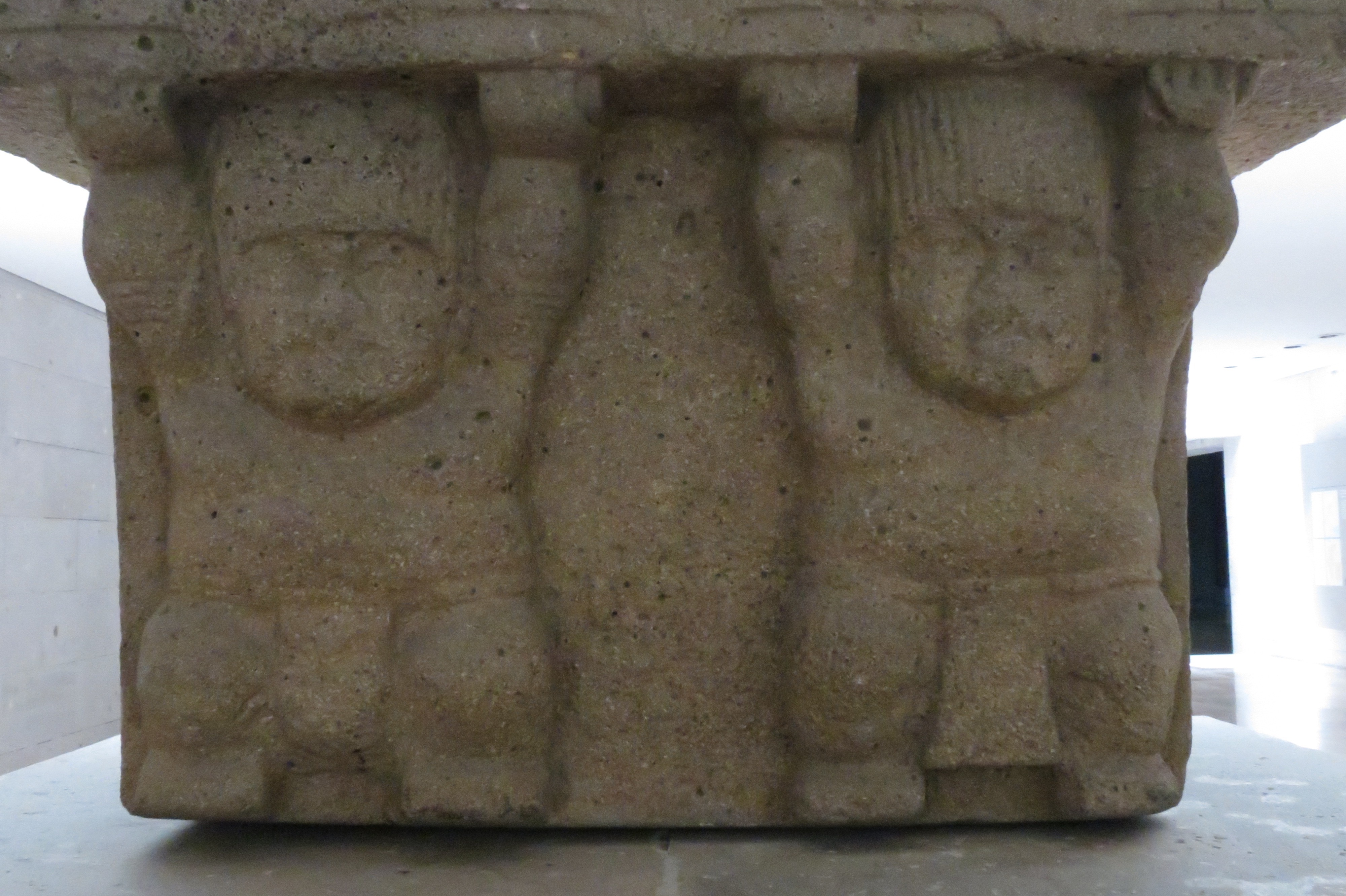 The sculpture found in Loma del Zapote-Potrero Nuevo deals with a small throne in the form of a table on which a dignitary Olmec exercised his power. This piece is located in the Museum of Anthropology of Xalapa, Veracruz.